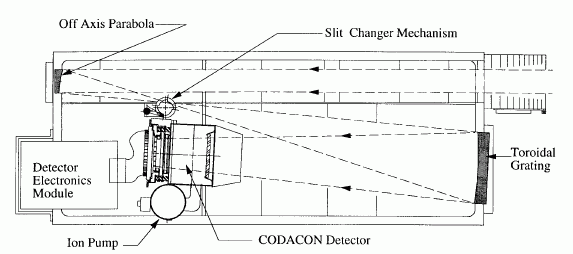 Crosscut of FUV-Instrument for Cassini